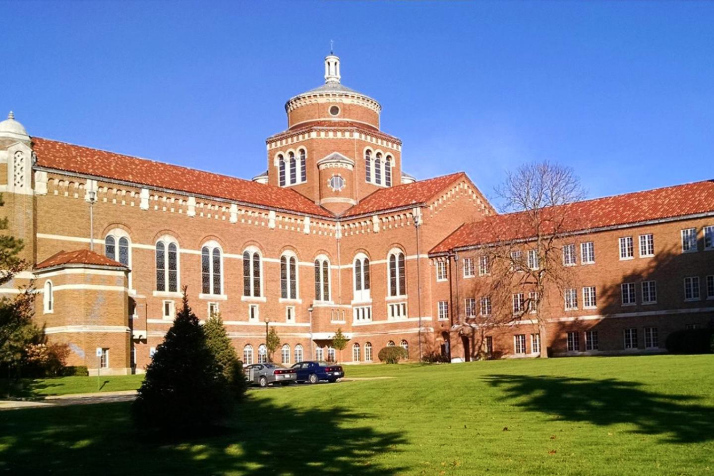 An image of Madonna University, a college in Livonia.